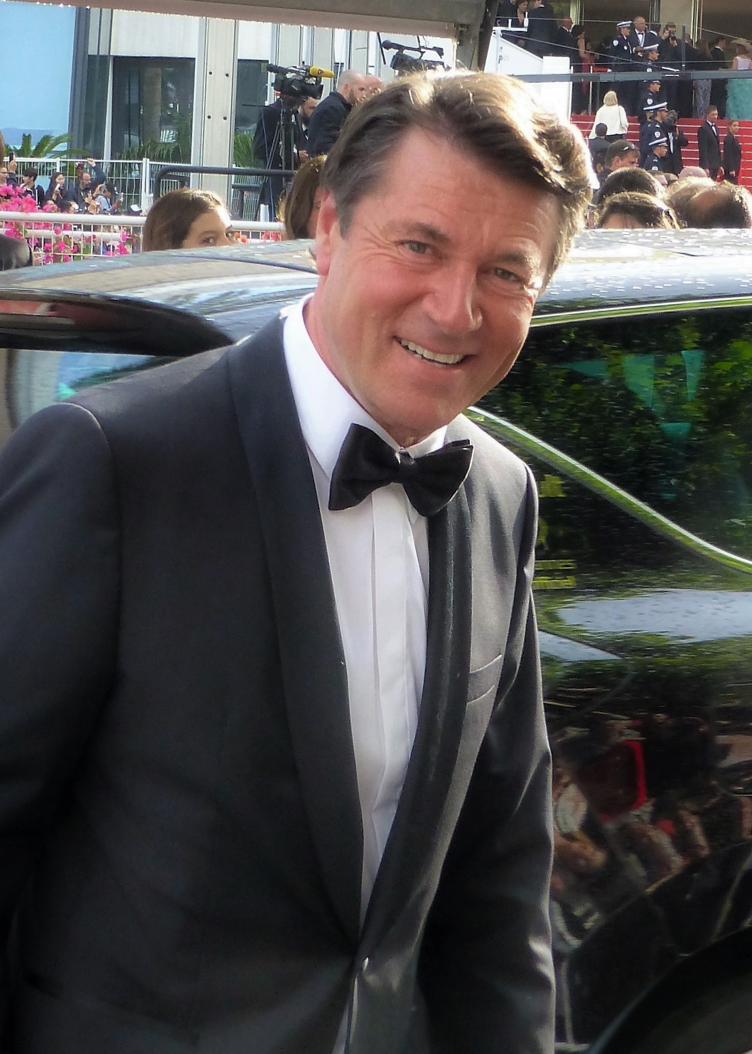 Christian Estrosi at the world premiere of Cafe Society, 2016 Cannes Film Festival